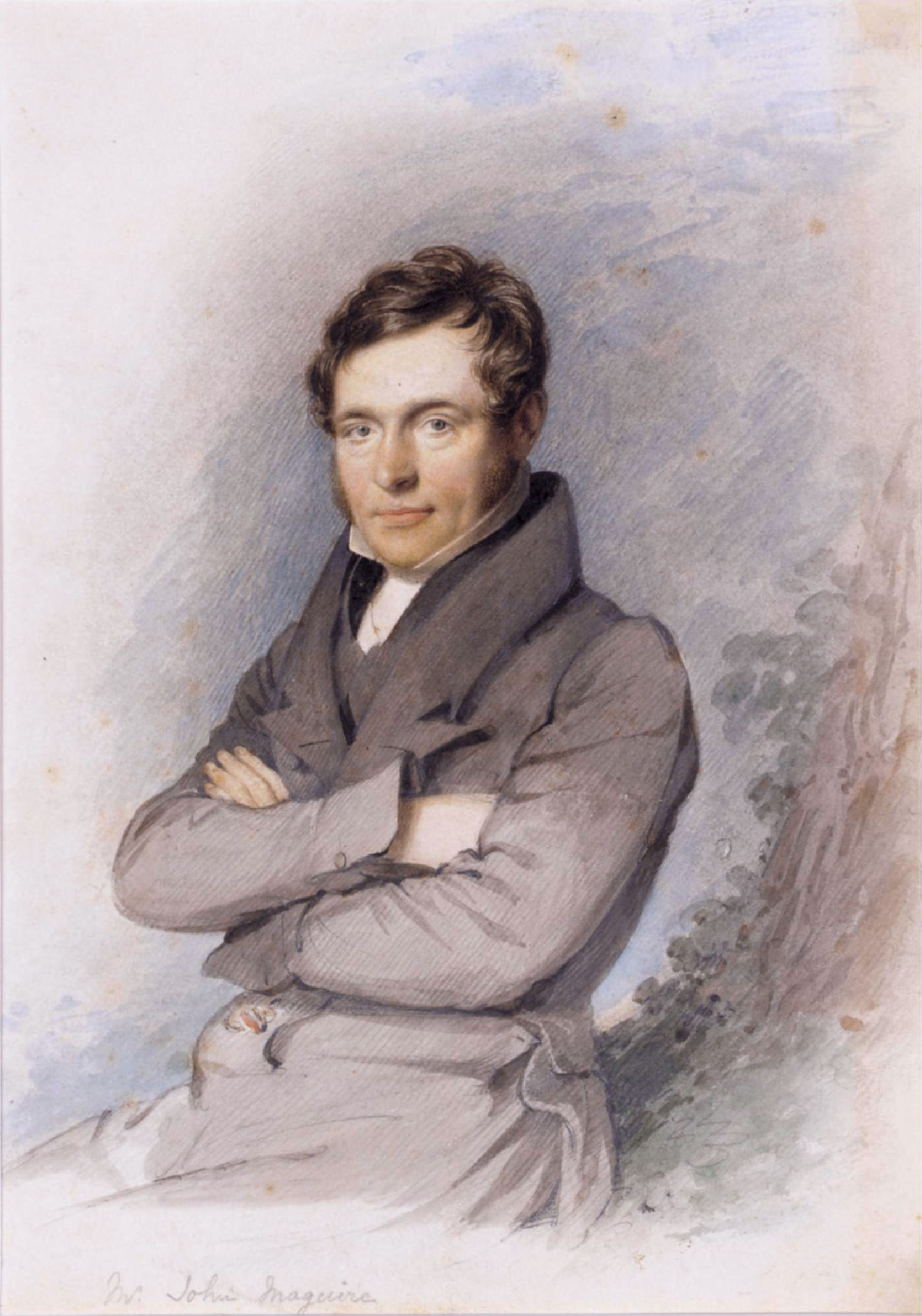 John Francis Maguire (1815-1872) watercolour over pencil with touches of gum arabic 23.5 x 20 cm inscribed l.l.: Mr. John Maguire